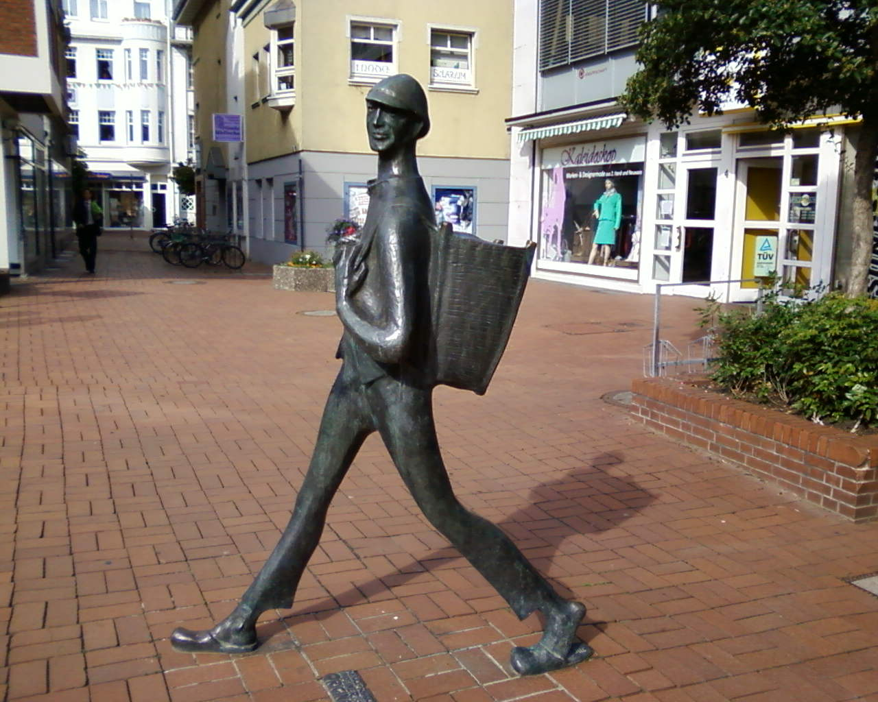 Sculpture of the Dienstmann Karl Kaufmann (Schicke-Schacke), Peine, Lower Saxony, Germany.